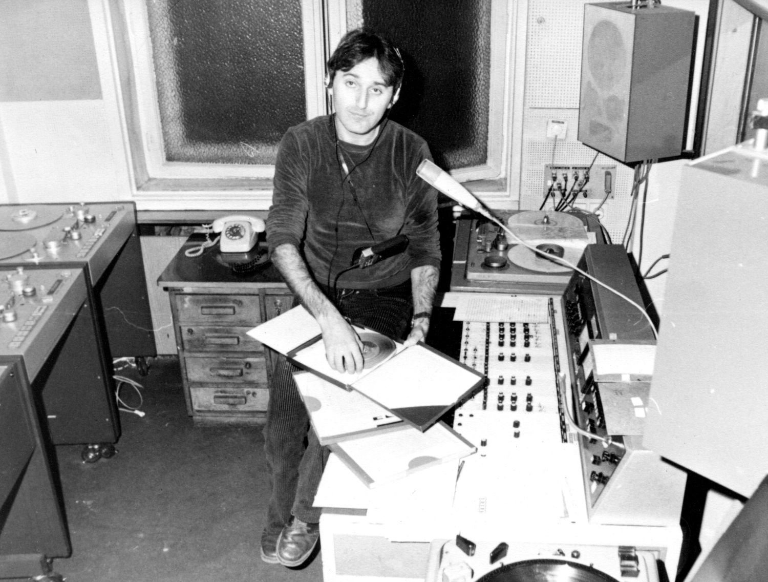 Zoran Modli 1982 at the beginning of his radio show